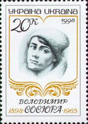 Stamp of Ukraine